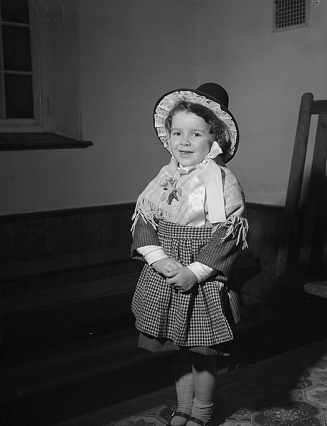 Teitl Cymraeg/Welsh title: Dathlu Gwyl Ddewi yn Abermo Ffotograffydd/Photographer: Geoff Charles (1909-2002) Dyddiad/Date: 10/3/1960 Cyfrwng/Medium: Negydd ffilm / Film negative Cyfeiriad/Reference: (gch21490) Rhif cofnod / Record no.: 3470520 Rhagor o wybodaeth am gasgliad Geoff Charles yn Llyfrgell Genedlaethol Cymru More information about the Geoff Charles Collection at the National Library of Wales Mae ffotograffau Geoff Charles hefyd yn rhan o Broject Europeana Libraries Geoff Charles' photographs also form part of the Europeana Libraries Project